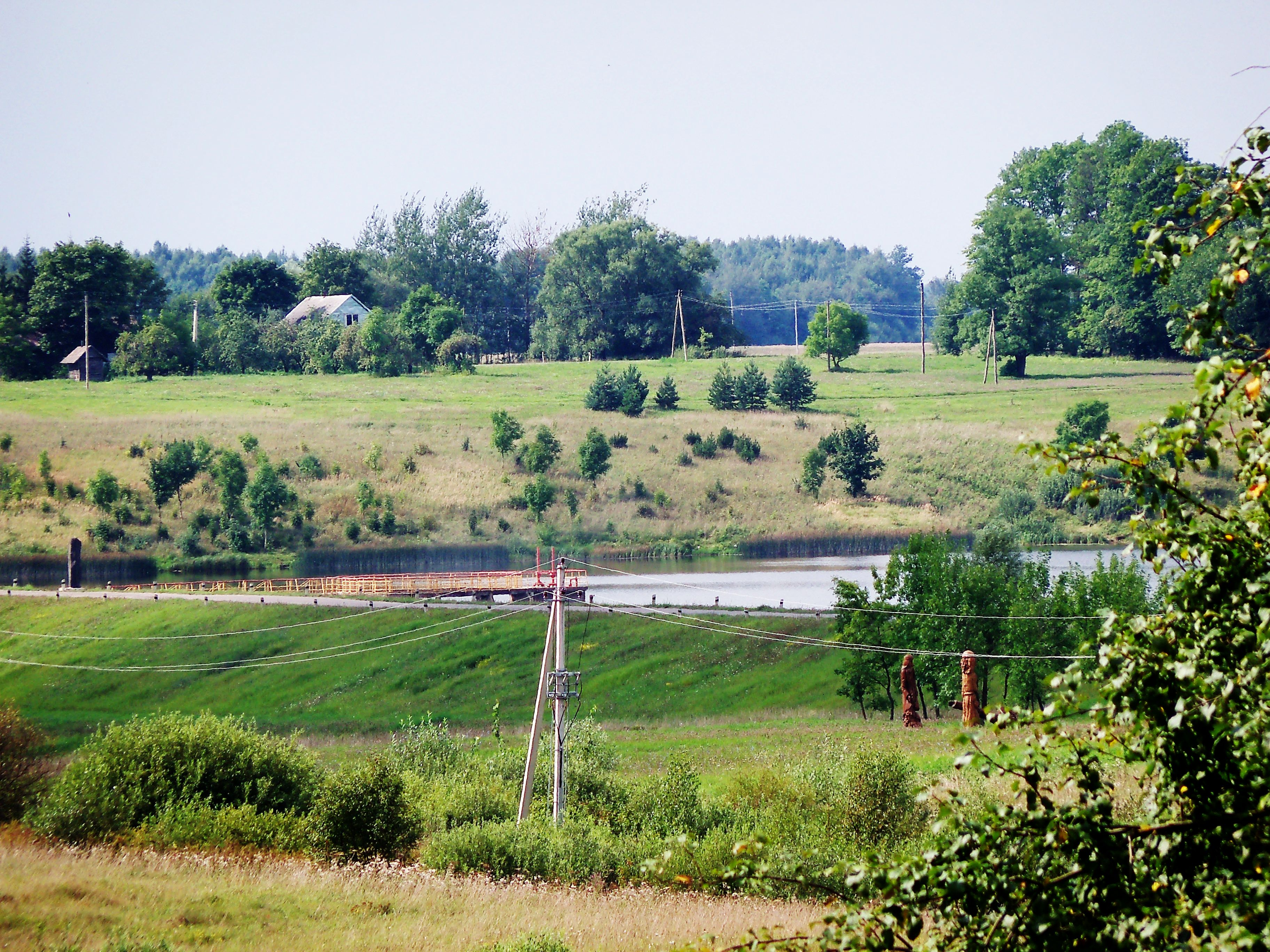 Kupiškis reservoir in Lithuania.